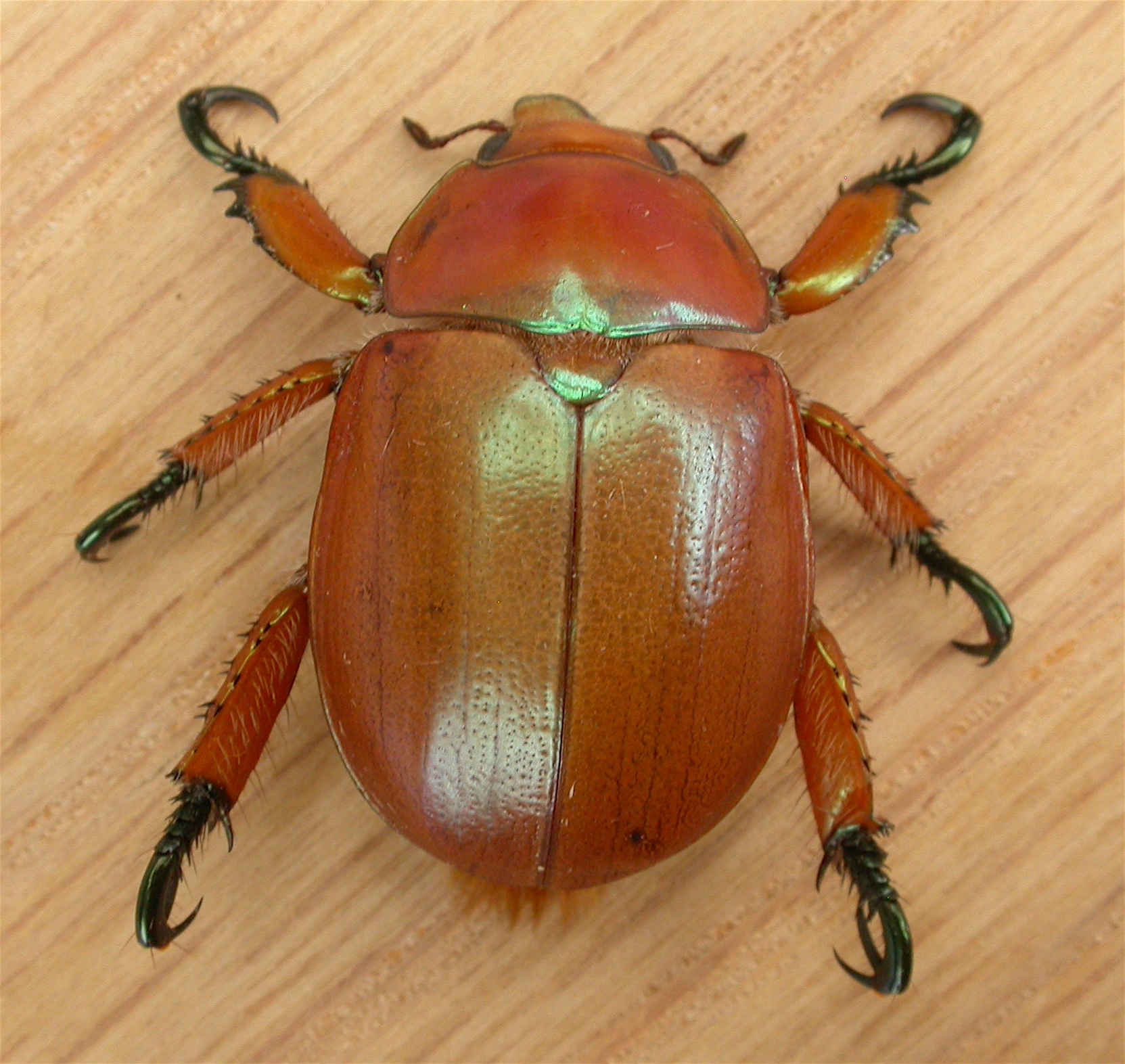 Anoplognathus viriditarsis Leach 1815, to MV light, Aranda, ACT, 22/23 December 2008